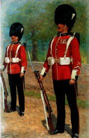 Illustration of Welsh Guards in parade dress.